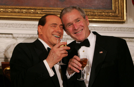 President George W. Bush and Italian Prime Minister Silvio Berlusconi raise their glasses in a toast Monday evening, Oct. 13, 2008, during a State Dinner in honor of Prime Minister Berlusconi's visit to the White House.